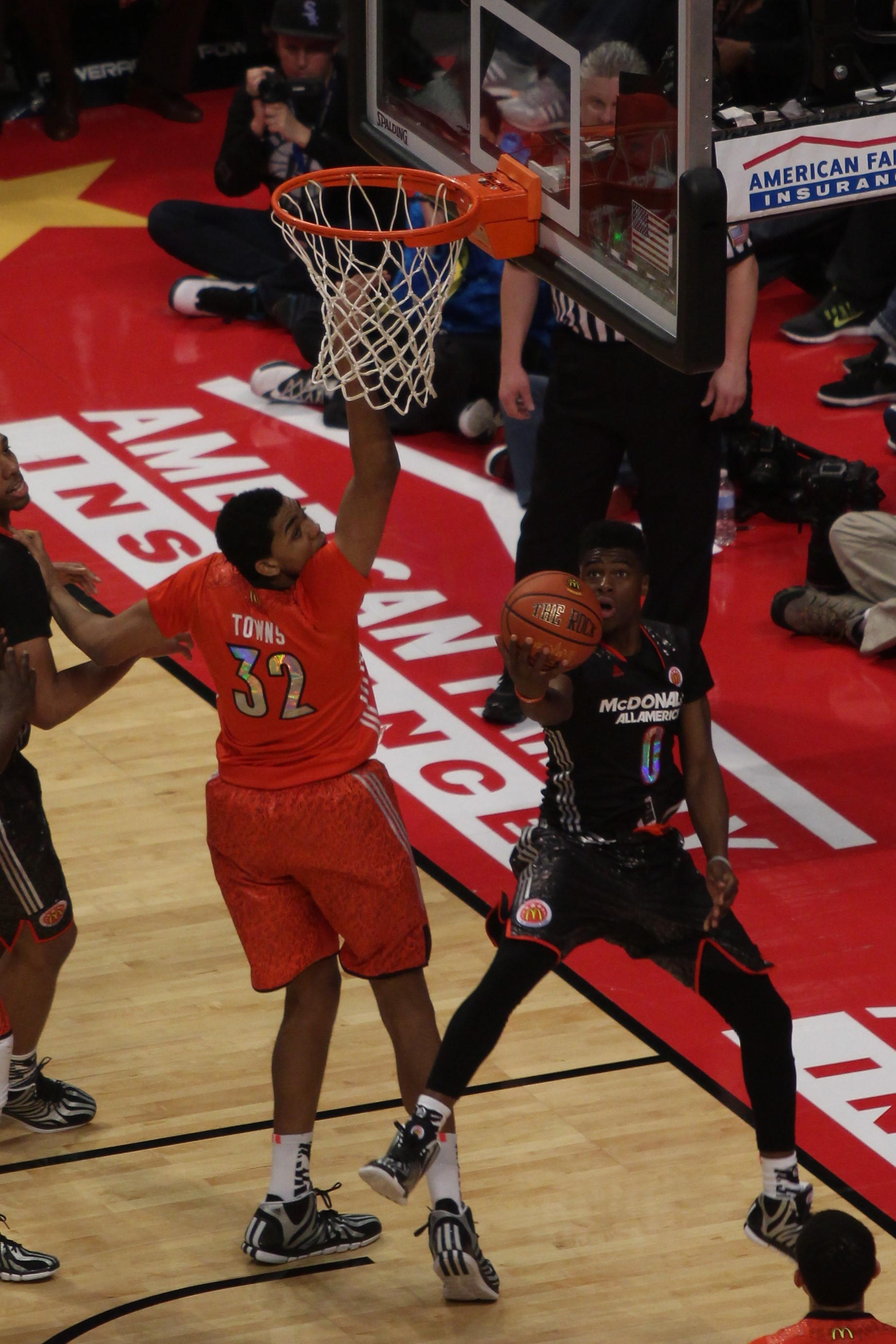 Emmanuel Mudiay against Karl Towns in the w:2014 McDonald's All-American Boys Game